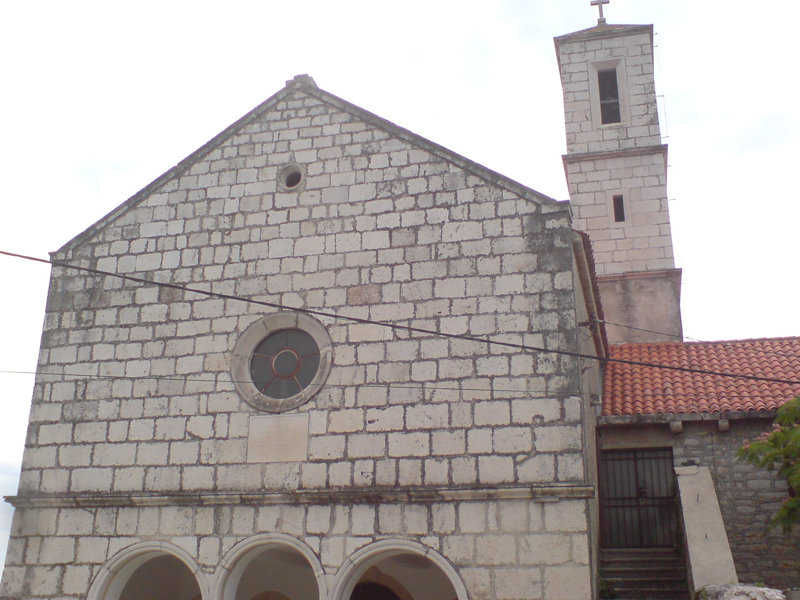 Church on Krapanj island, near Šibenik (Croatia)